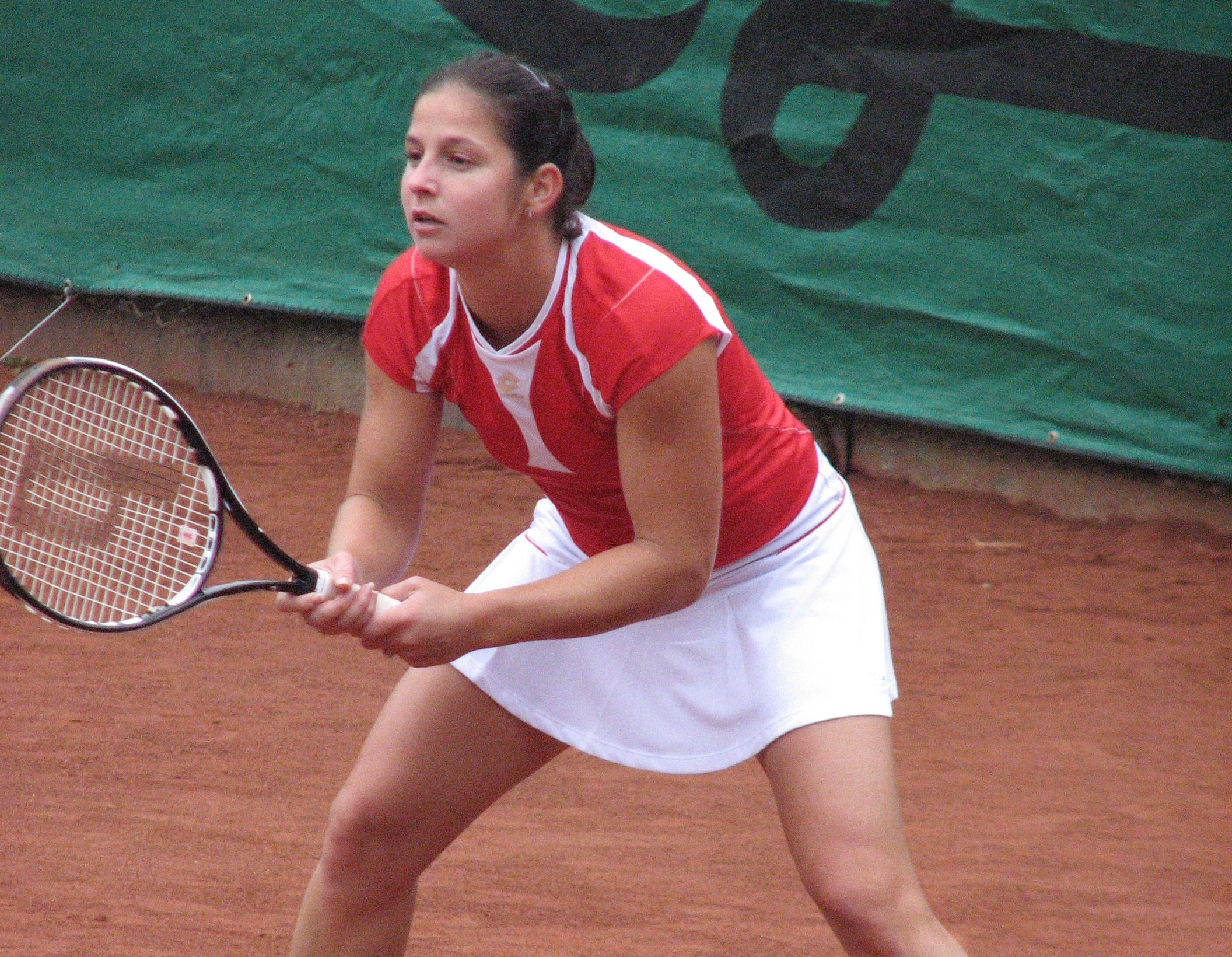 Jelena Kostanić Tošić (Allianz Cup Sofia 2008)